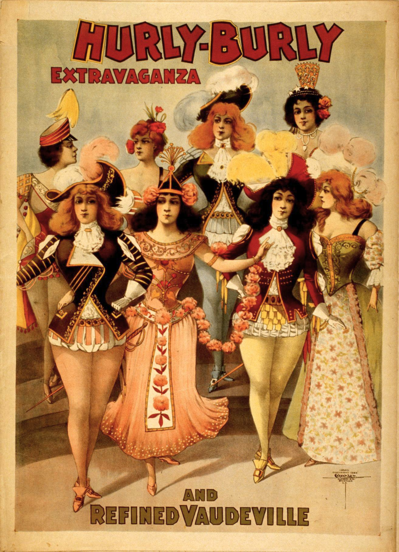 Advertising poster for "Hurly-Burly Extravaganza and Refined Vaudeville"